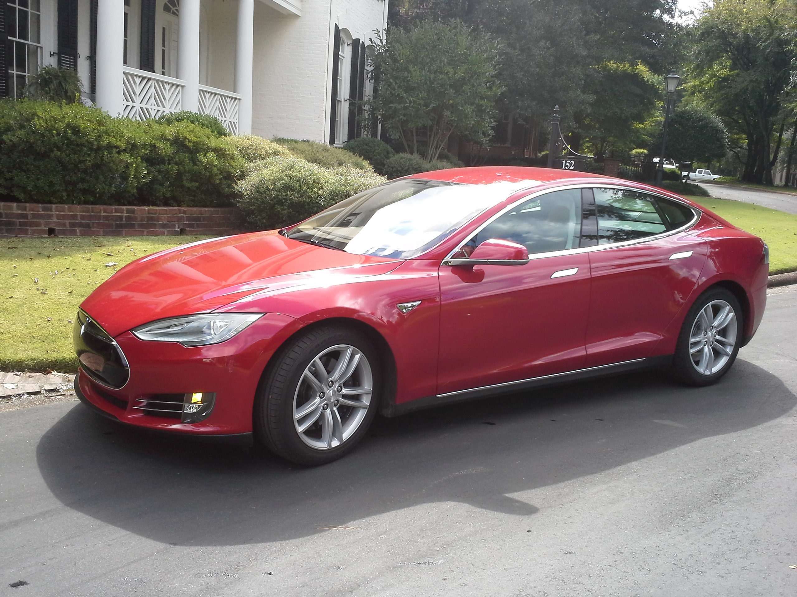 Unknown year, spotted in Cordova, Memphis, TN.